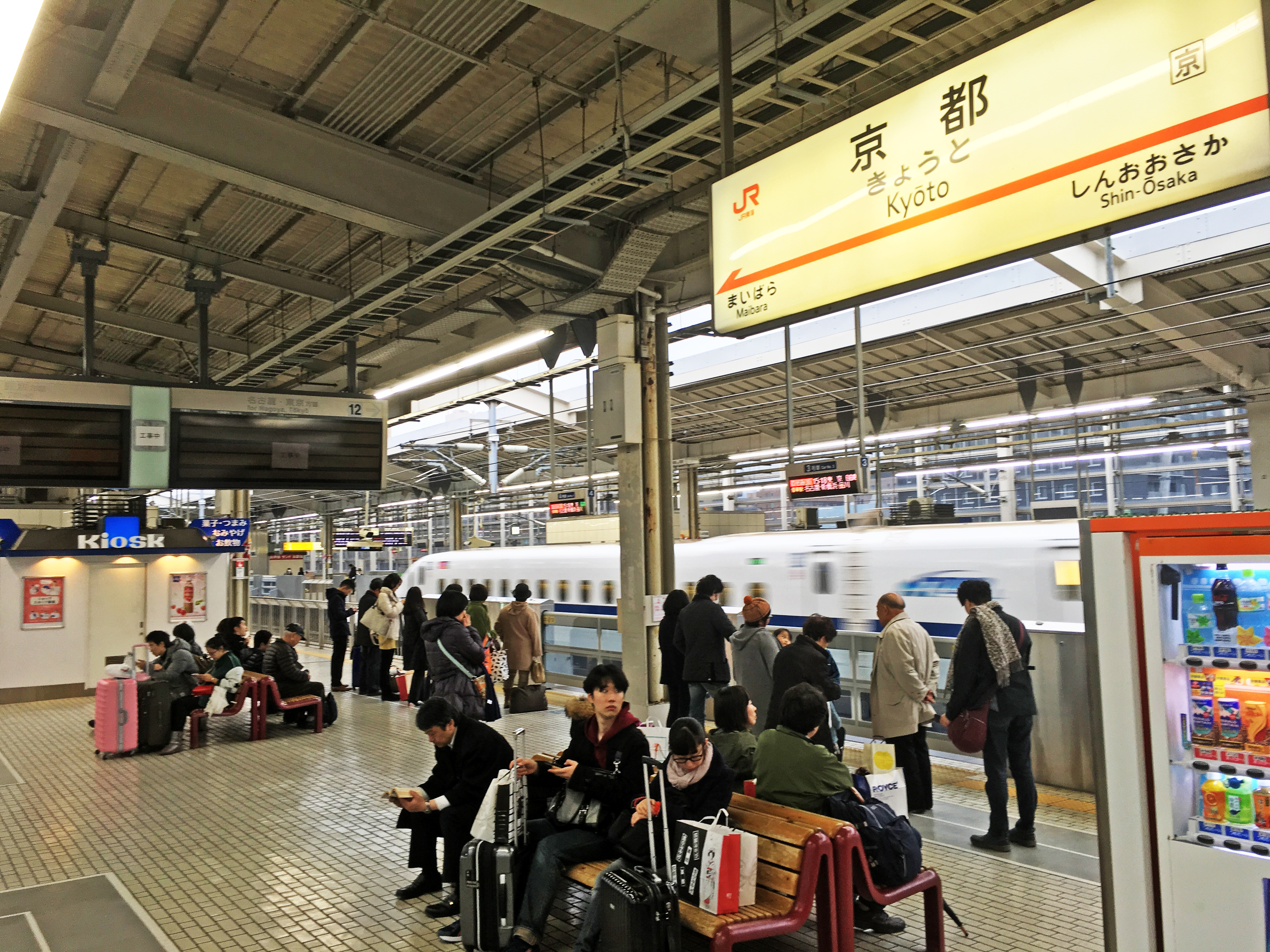 Taken at a Shinkansen platform of Kyoto Station